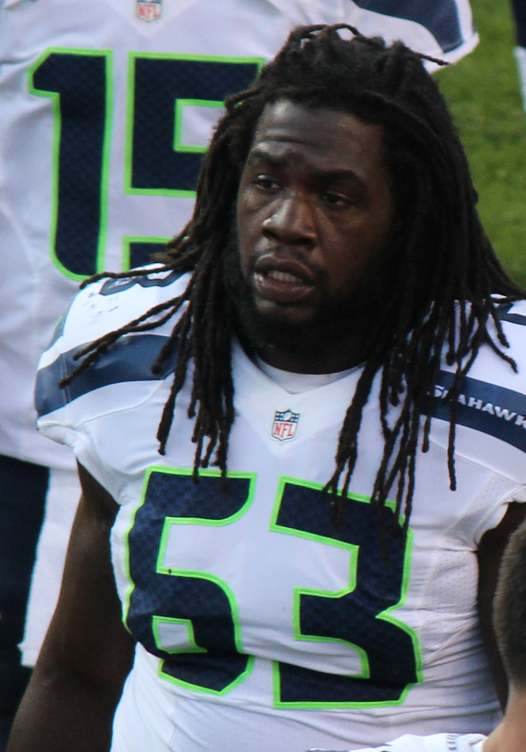 Rishaw Johnson, a player on the National Football League.